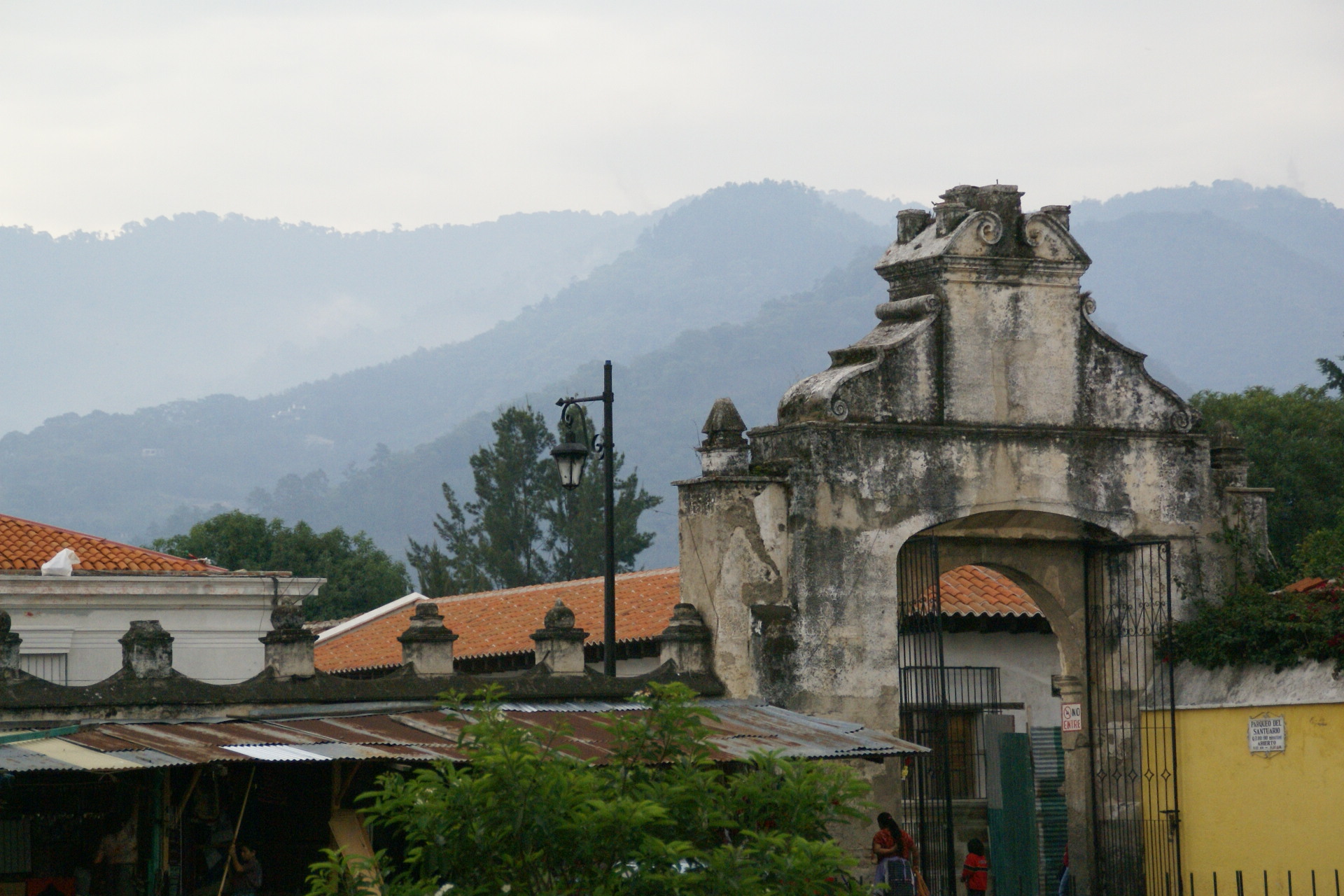 Entrance gate at San Francisco Church in Antigua Guatemala